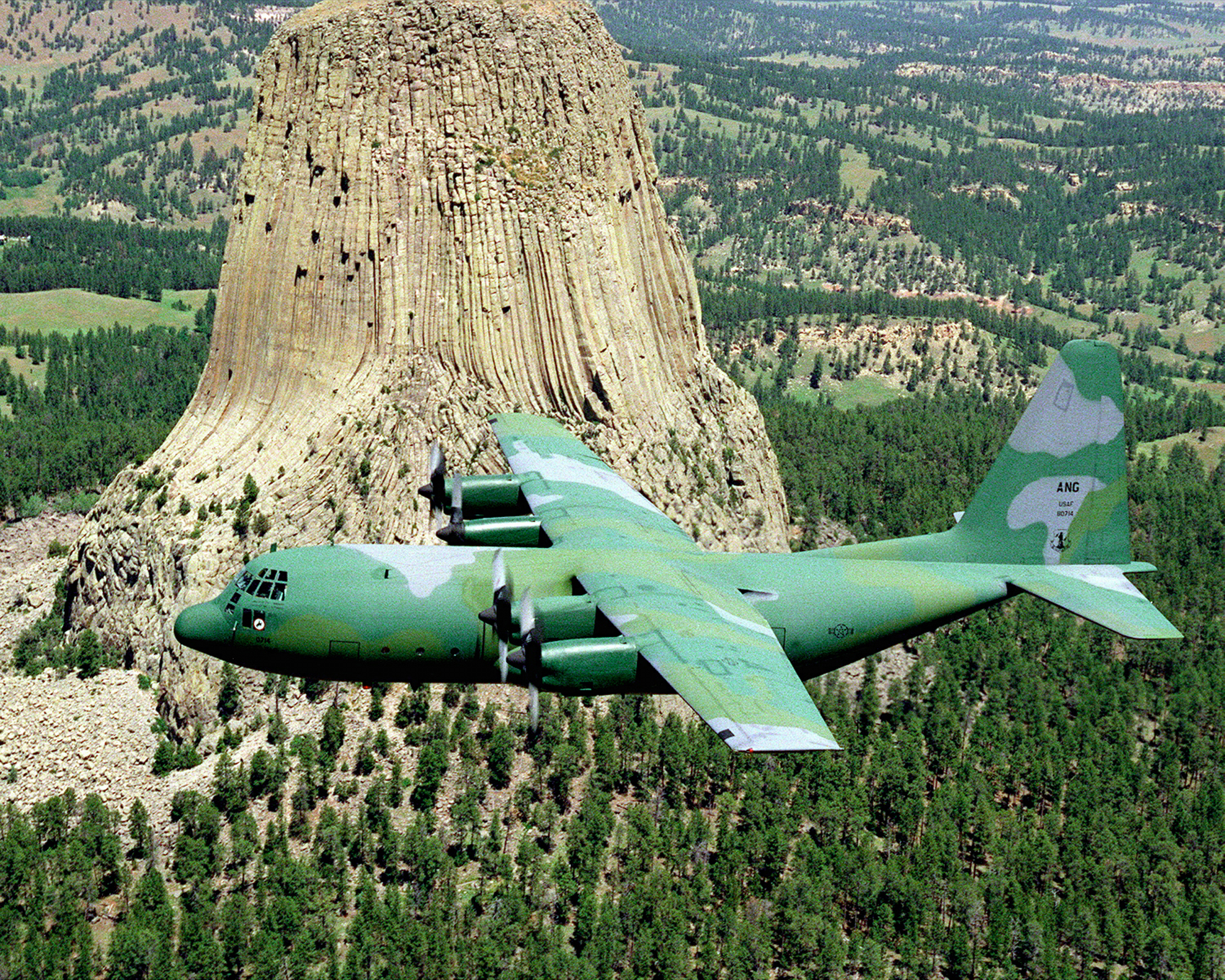 A U.S. Air Force Lockheed C-130B-LM Hercules (s/n 58-0714) from the 187th Airlift Squadron, 153rd Air Transport Group, Wyoming Air National Guard flying past Devils Tower National Monument. The 153rd ATG flew the C-130B from 1972 to 1993.